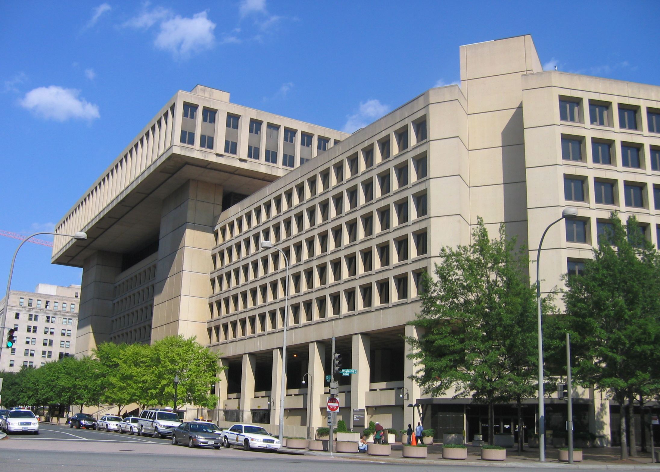 Standing on Pennsylvania Avenue NW and look up F Street NW at the J. Edgar Hoover Building, the headquarters of the Federal Bureau of Investigation in Washington, D.C., in the United States.